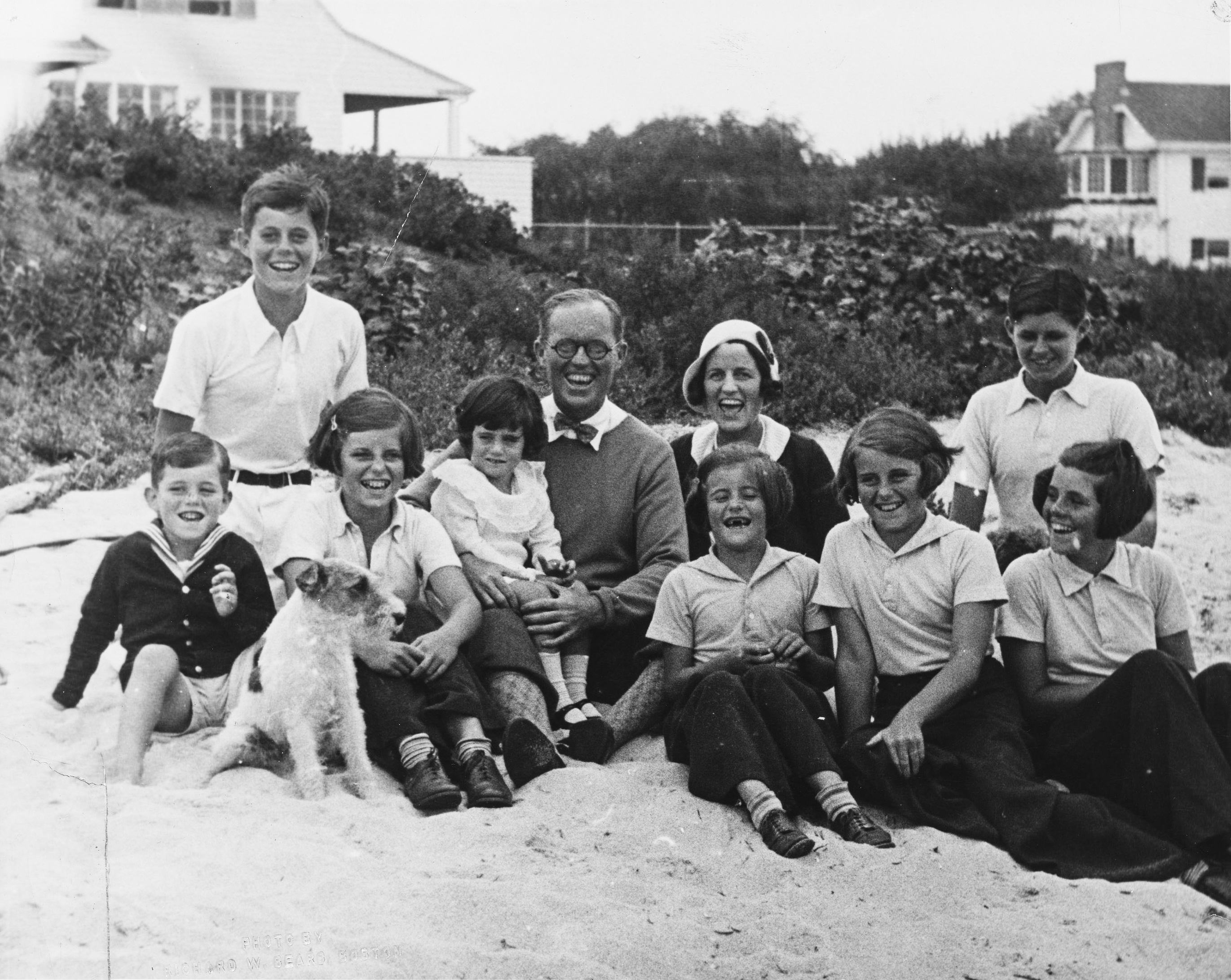 The Kennedy Family at Hyannis Port, 04 September 1931. L-R: Robert Kennedy, John F. Kennedy, Eunice Kennedy, Jean Kennedy (on lap of) Joseph P. Kennedy Sr., Rose Fitzgerald Kennedy (who was pregnant with Edward "Ted" Kennedy at time of this photo), Patricia Kennedy, Kathleen Kennedy, Joseph P. Kennedy Jr. (behind) Rosemary Kennedy. The dog in the foreground is Buddy.